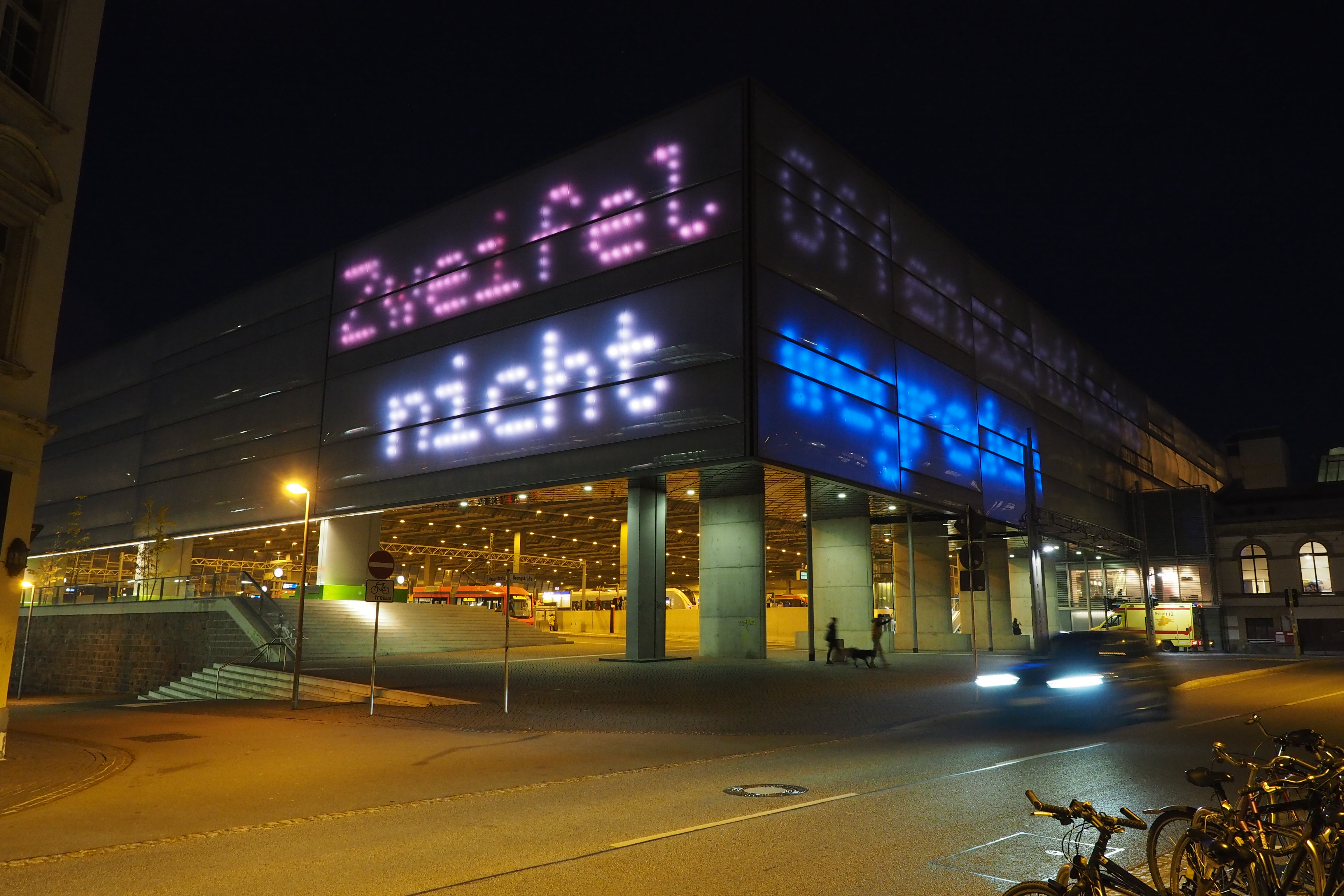 Chemnitz main station hall media facade installation 13 Millionen Zustände by Antje Meichsner